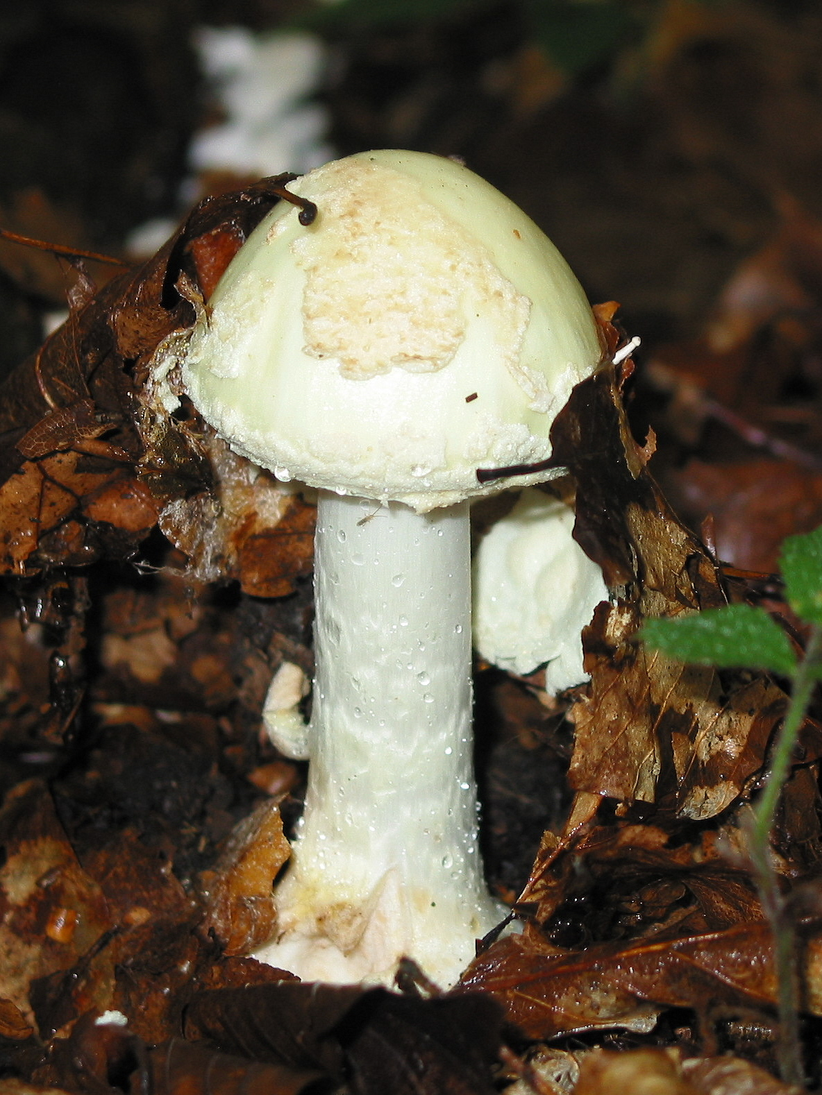 Amanita citrina, Havré, Belgium